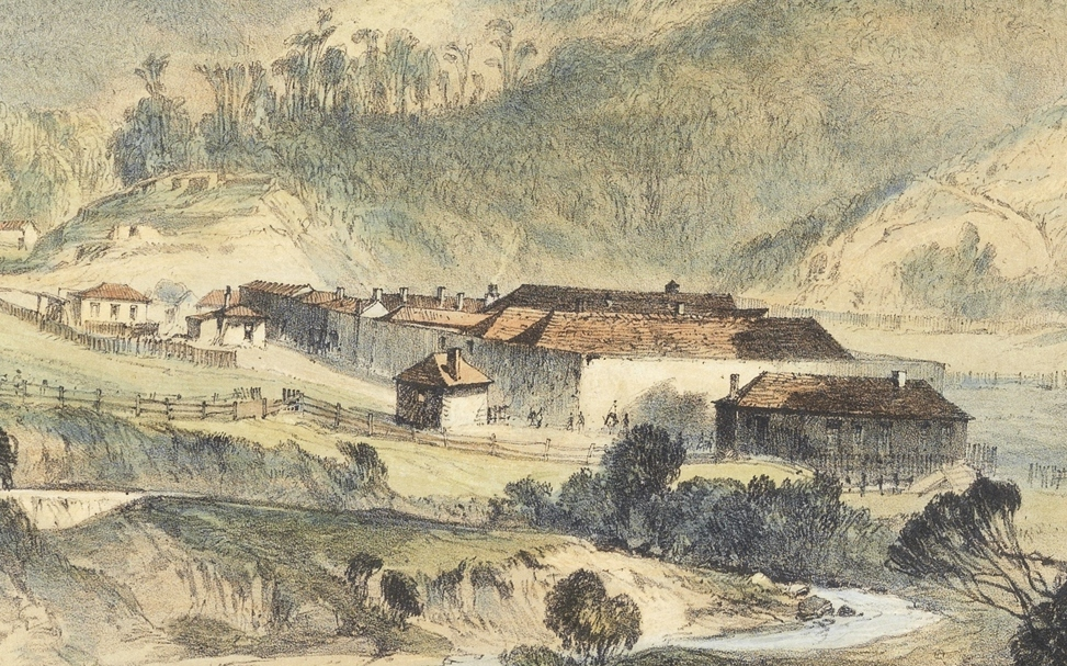 The female factory from Proctor's Quarry; detail showing the Cascades Female Factory in Hobart, Van Dieman's Land (now Tasmania), hand coloured lithograph; sheet 38 x 56 cm.